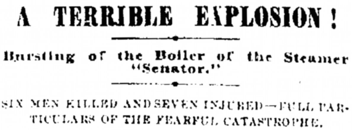 Headline from Morning Oregonian announcing explosion of steamer Senator.